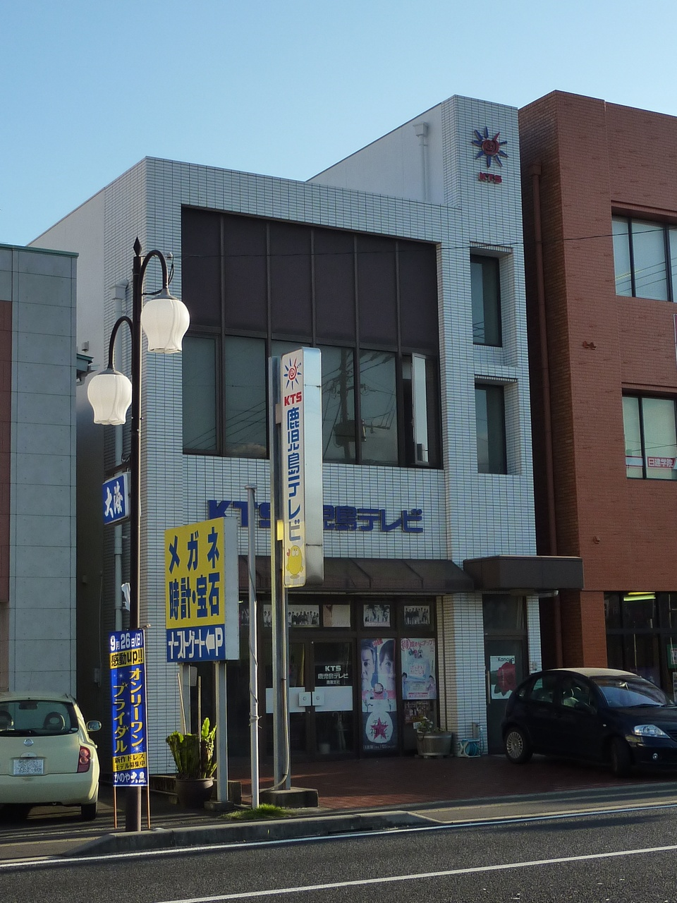 KTS Kagoshima Television Station Kanoya Branch (Kanoya City, Kagoshima, Japan)